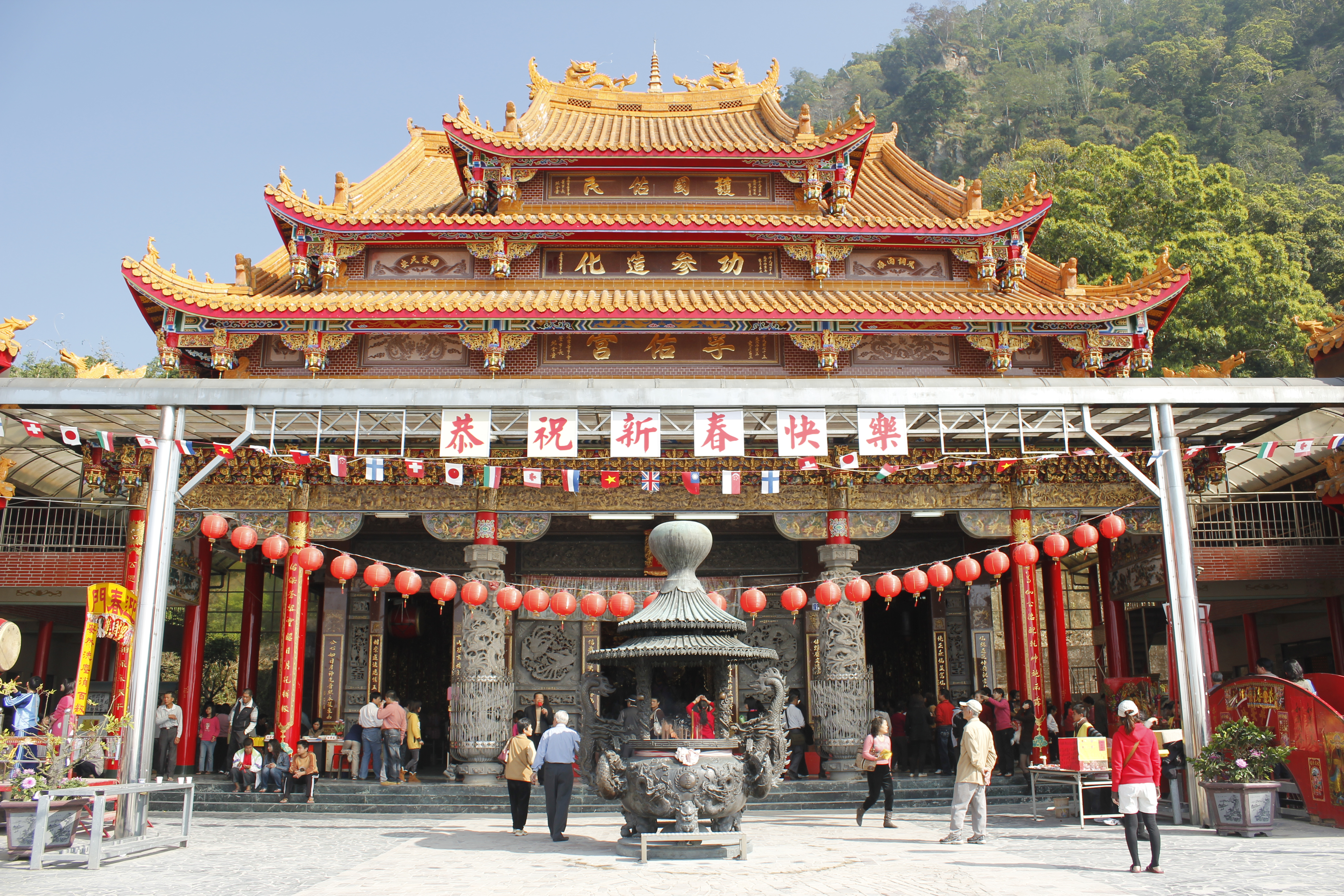 Fuyou Temple at Dongshan, Tainan, Taiwan